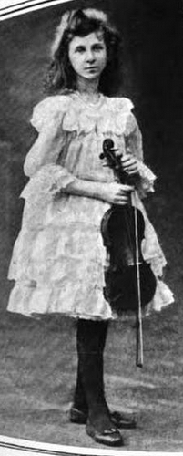 Vivien Chartres, from a 1906 publication. A white adolescent girl, standing in a short white dress and dark tights, holding a violin.